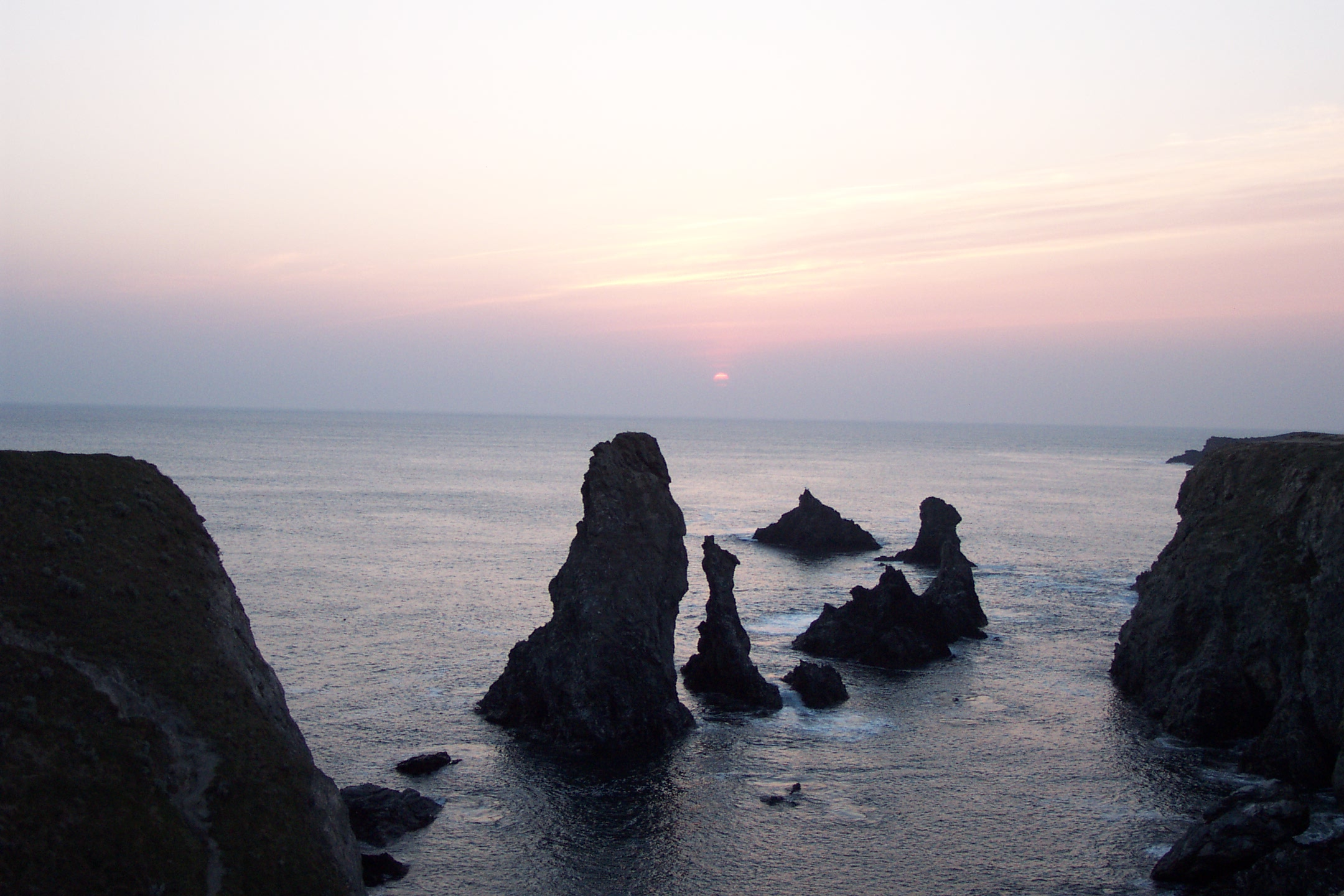 Description =Belle-ile Port Coton Source =Photo taken by Remi Jouan Date =Avril 2003 Author =Remi Jouan